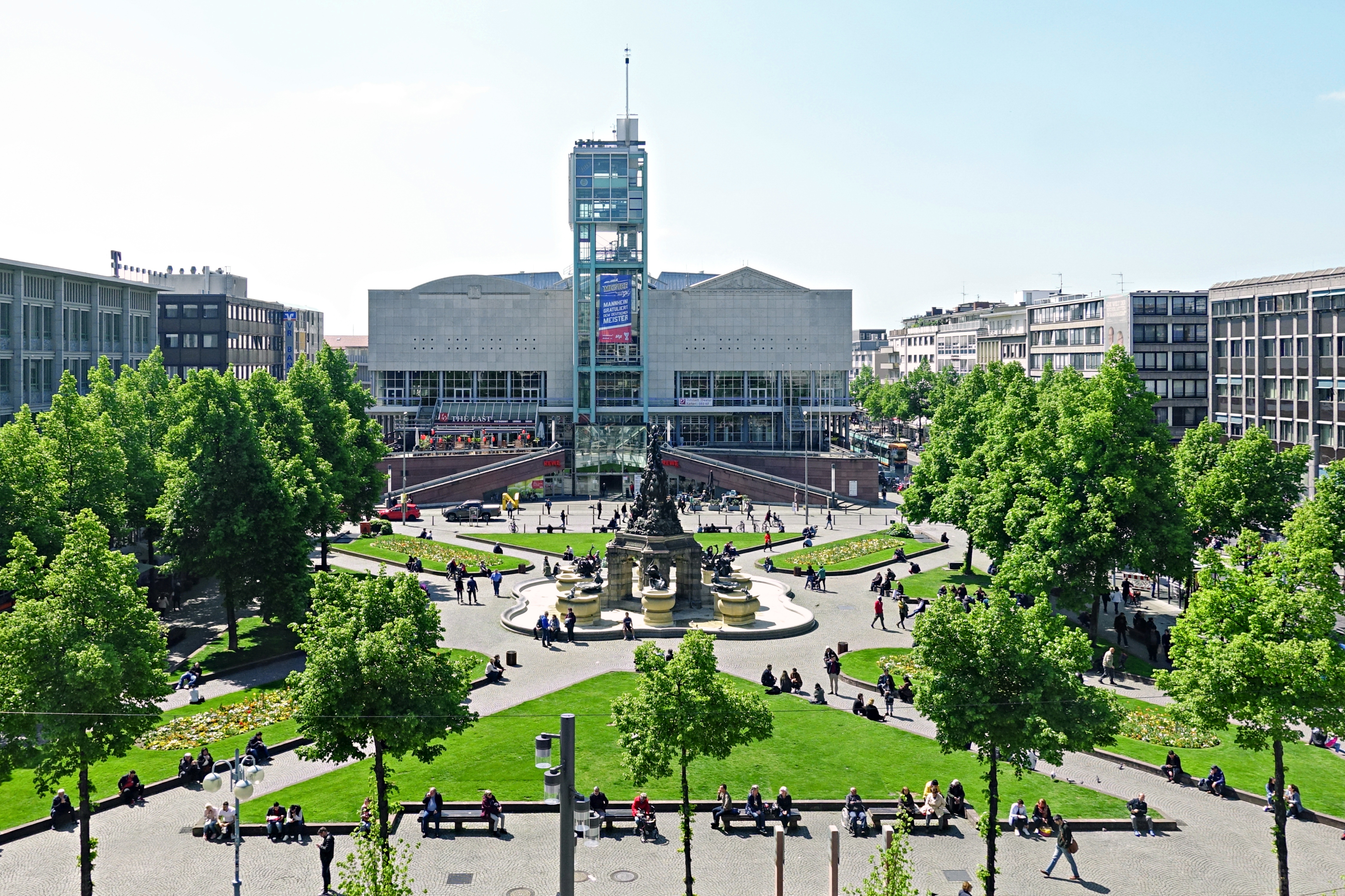 Paradeplatz, Mannheim, Germany, looking south over the square with Grupello fountain to the townhouse